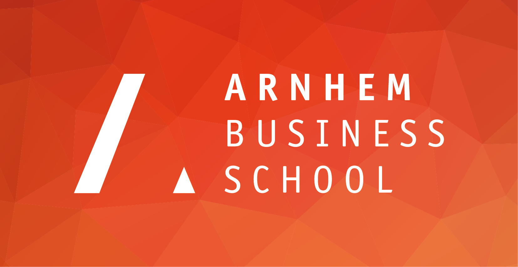 Arnhem Business School New